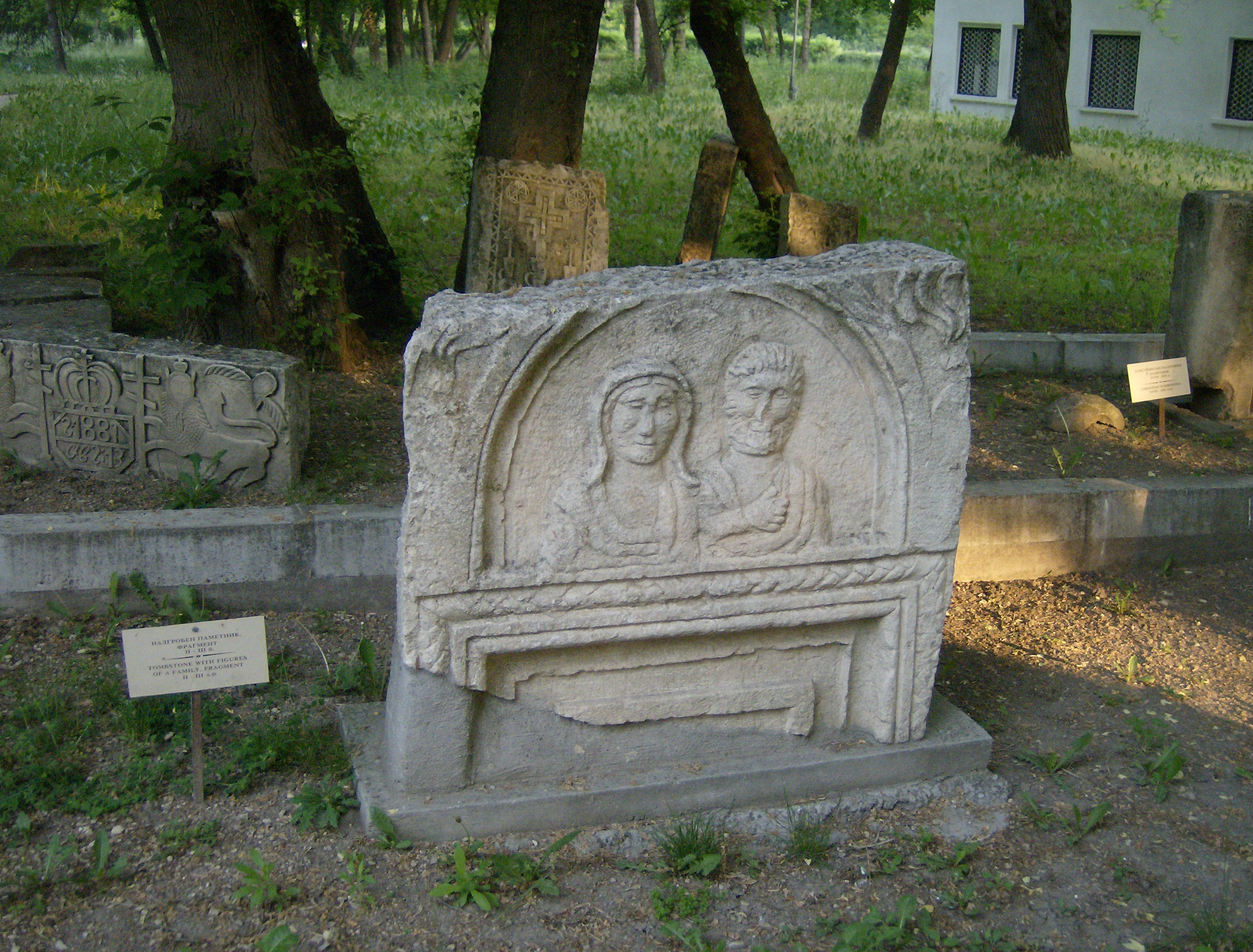 Abrittus